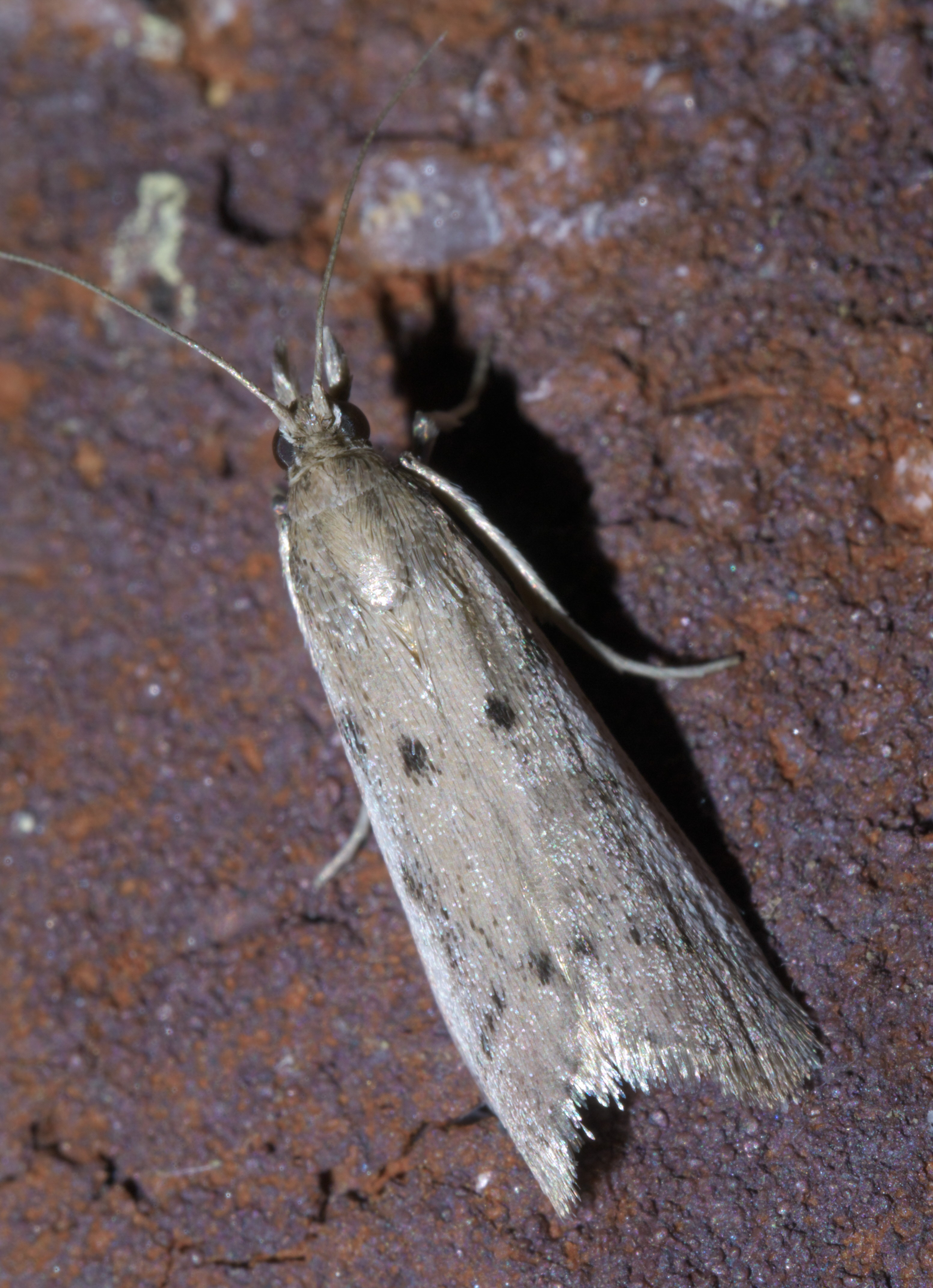 Goya stictella, Hodges #6073, Size: 10.4 mm, ID Confidence: 90